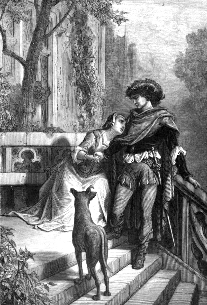 Illustration of The Two Pigeons by Jean de La Fontaine (1621-1695)